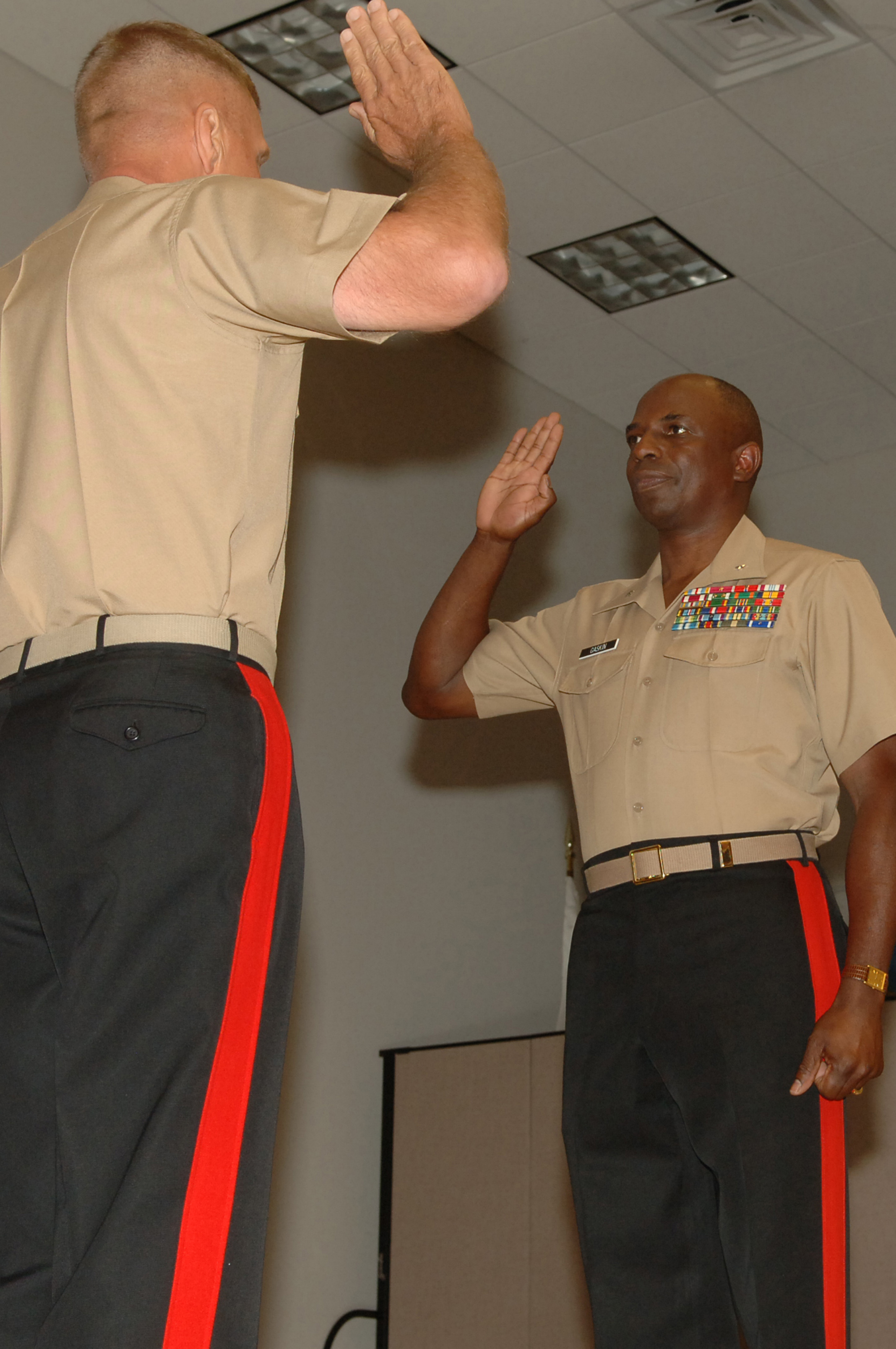 Major General Walter Gaskin, Commanding General, Marine Corps Recruiting Command, reaffirms his oath of office, administered by General Michael Hagee, Commandant of the Marine Corps. Gaskin was promoted to his current rank in a ceremony on October 7, at Marine Corps Base Quantico, Va.[1]